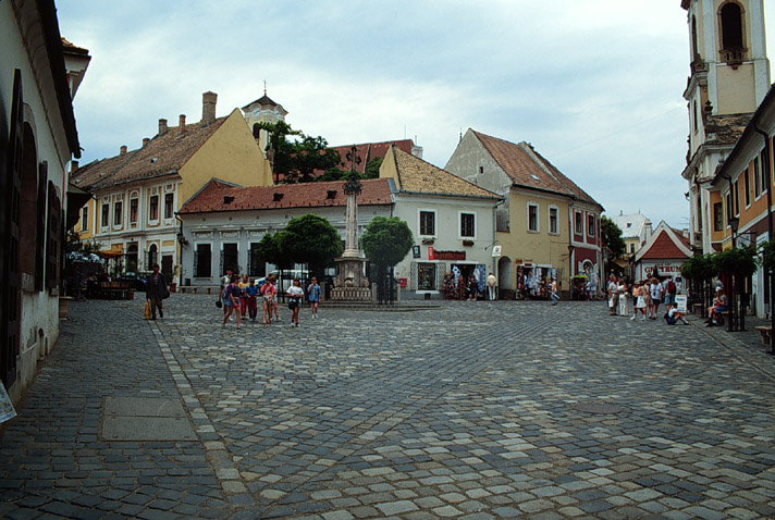 Main Square in the old town of Szentendre, Pest Comitat, Hungary